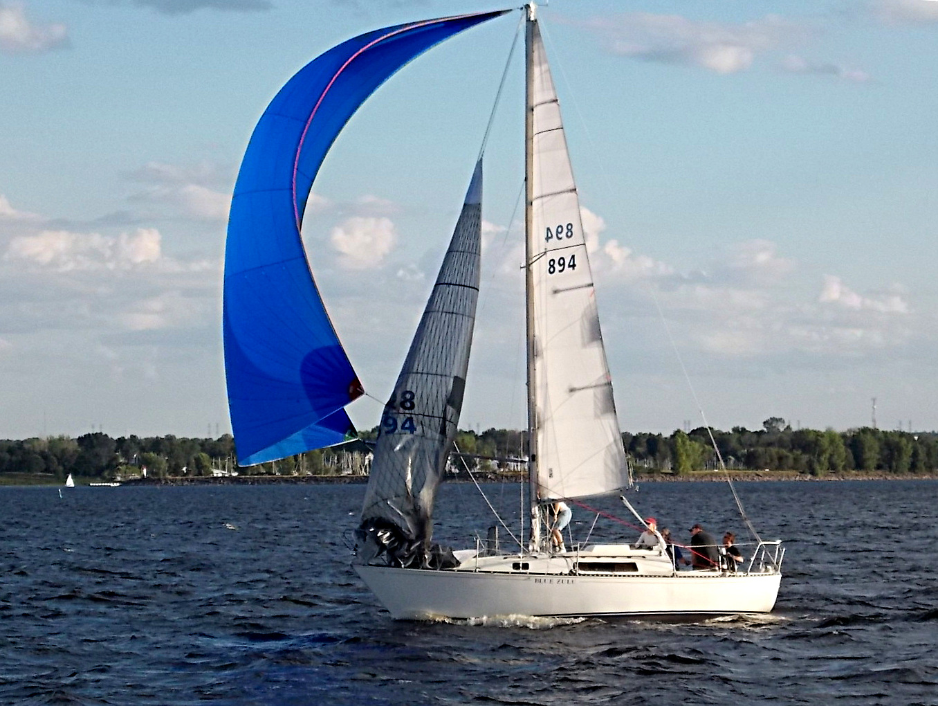 C&C 27 Mk 3 sailboat Blue Zulu on Lac Deschênes, part of the Ottawa River, Ottawa, Ontario, Canada